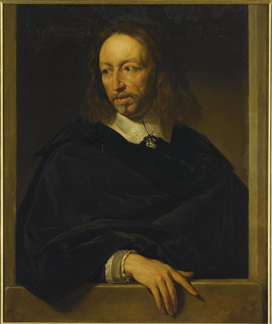 Portrait of Charles Coiffier, baron d’Orvilliers. Commissaire au Châtelet, échevin de Paris, maître ordinaire des requêtes d'Anne d'Autriche de 1640-1650, surintendant des mines et minières de France.